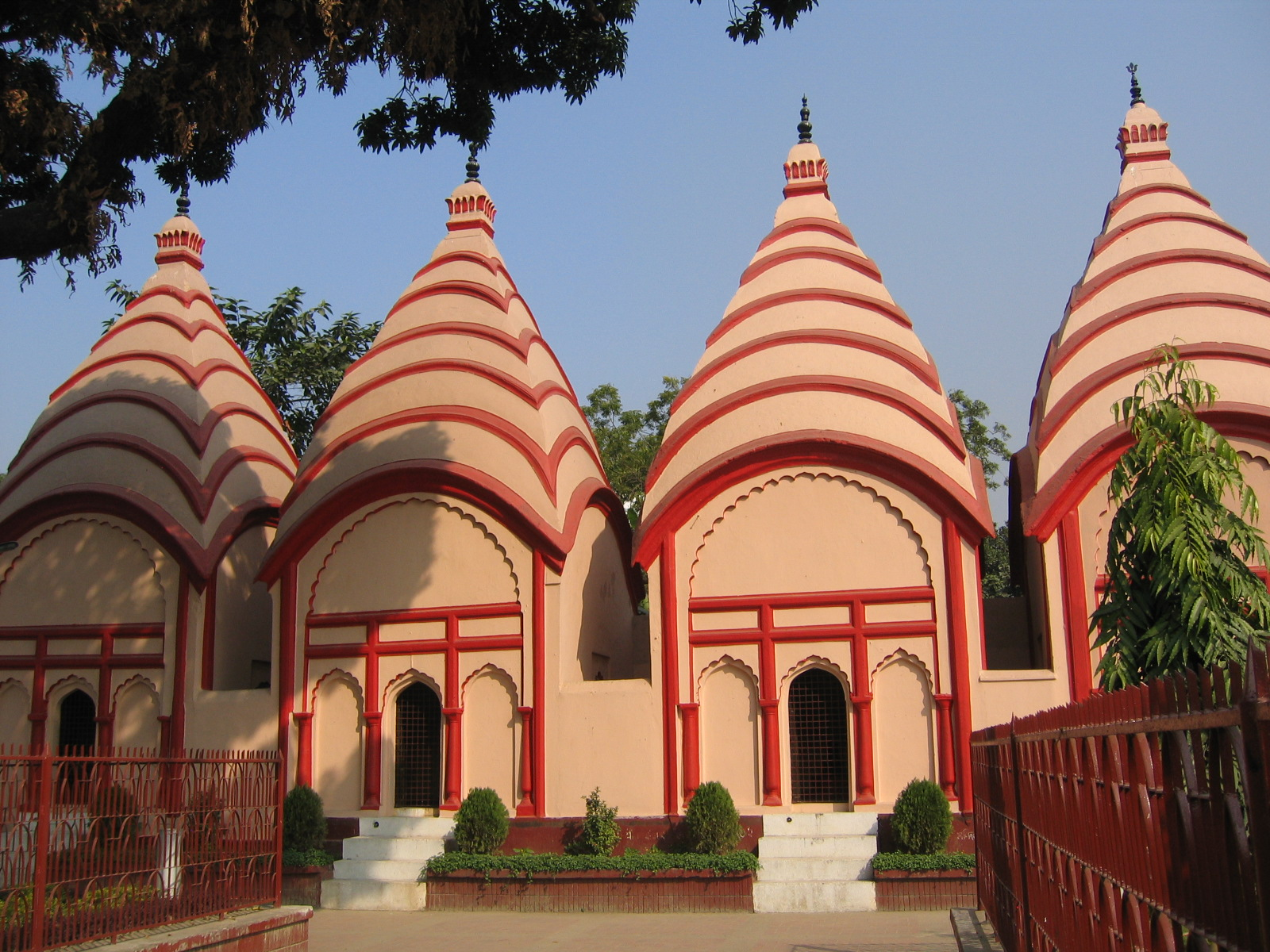 The 4 Shiva temples inside the Dhakeshwari Temple complex.